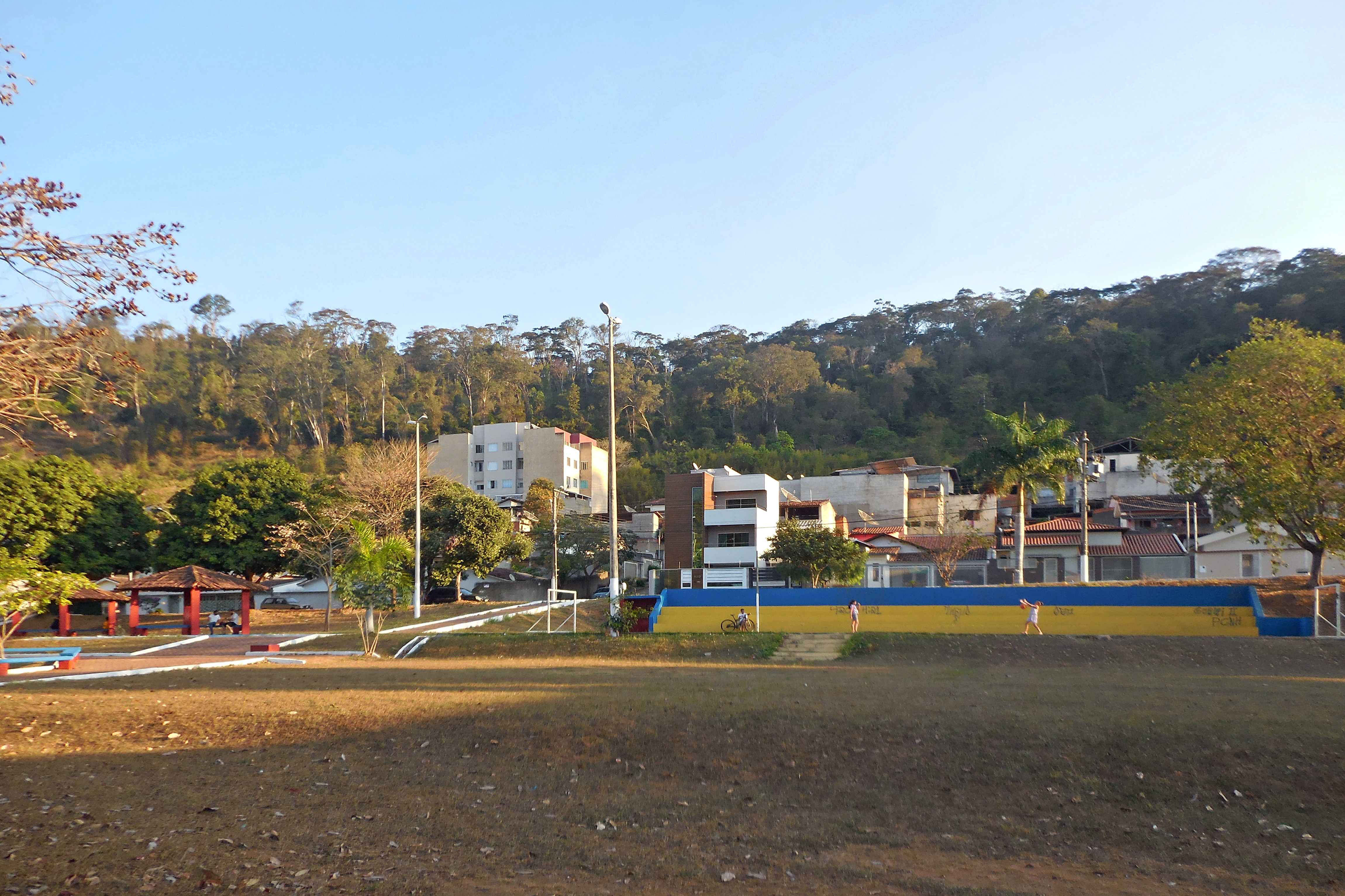 Square of the Novo Horizonte neighborhood, in Timóteo, Minas Gerais, Brazil.